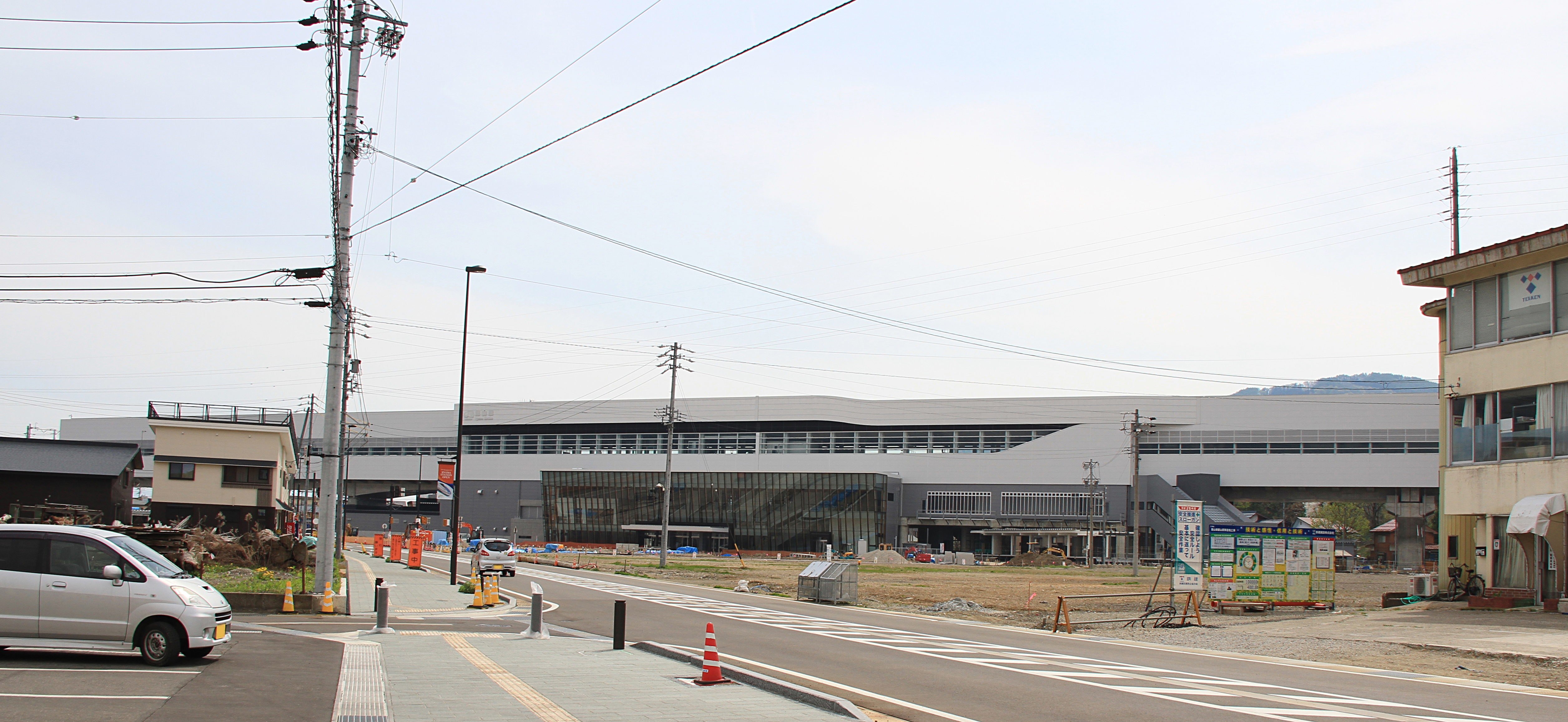 Hokuriku Shinkansen Iiyama Station under construction